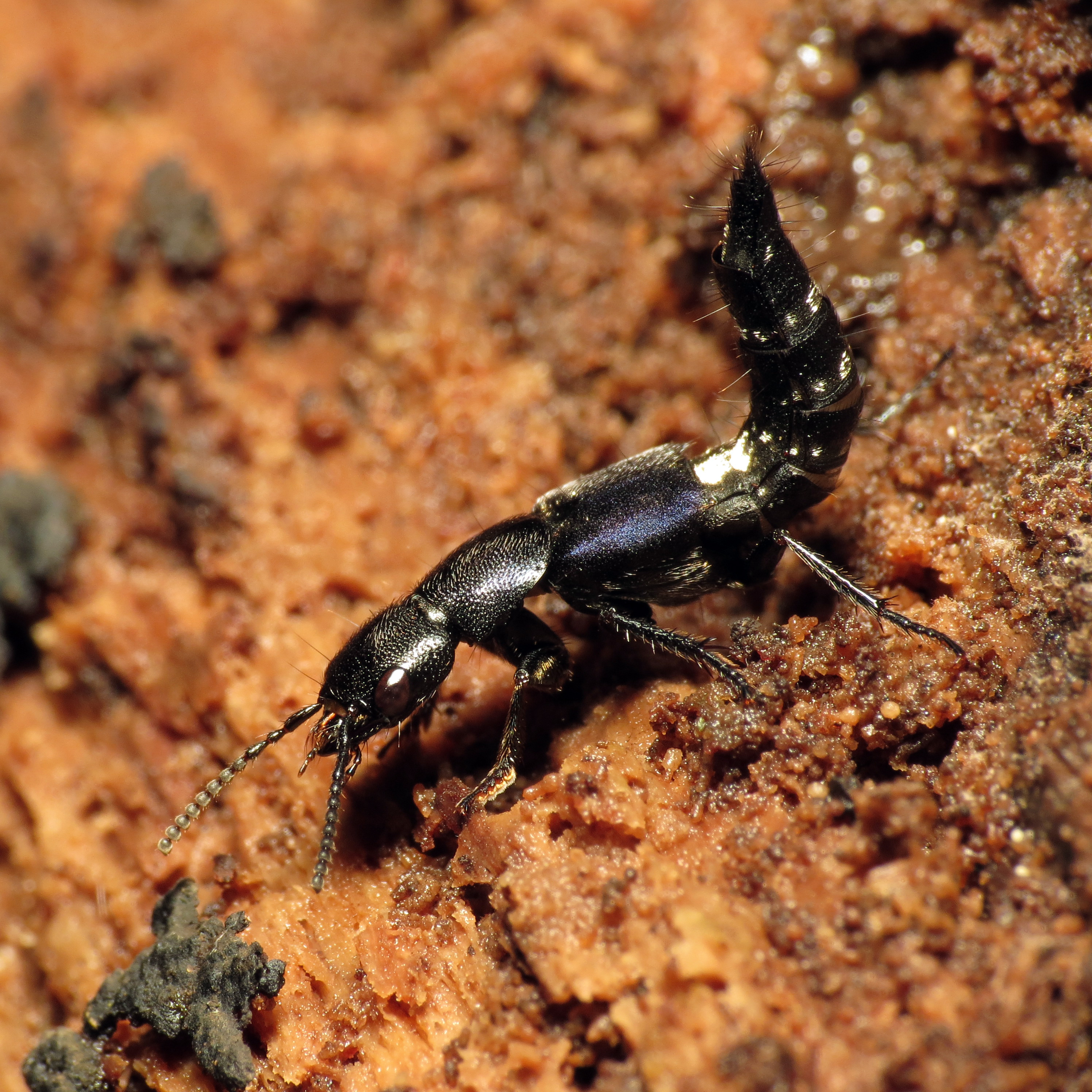 Platydracus violaceus. Rock Creek Park, Washington, DC, USA.